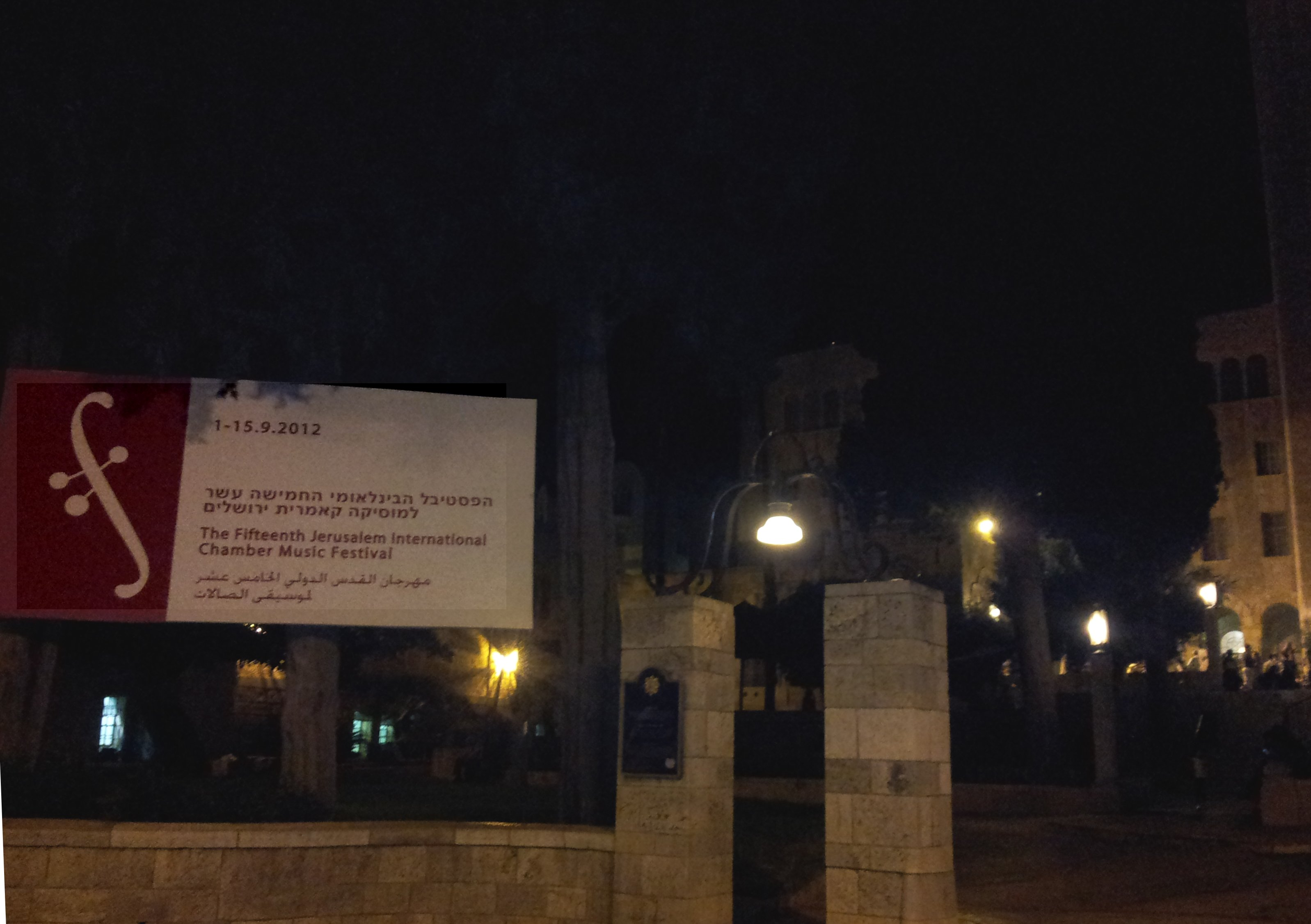 Jerusalem Chamber Music Festival YMCA